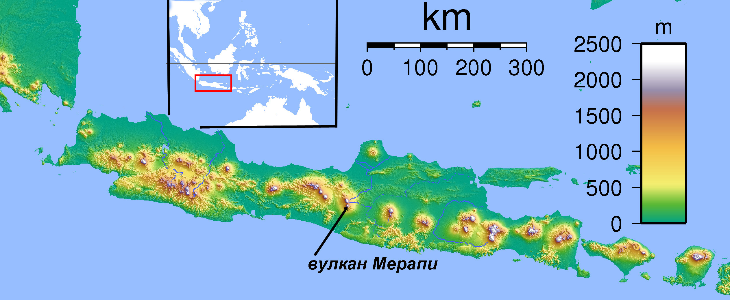 Java_Gunnung_Merapi